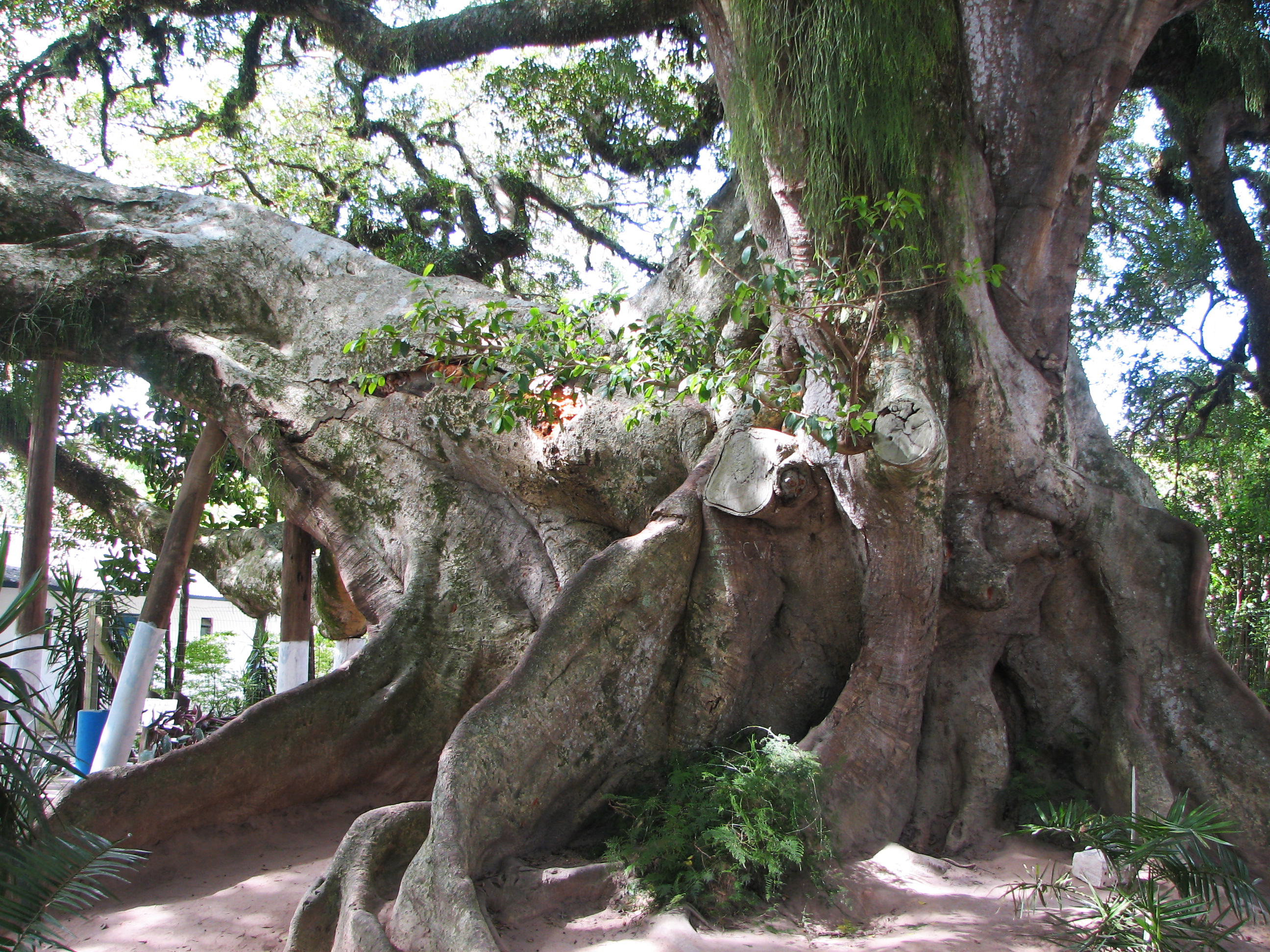 Largest ficus tree of Arambaré - Brazil.